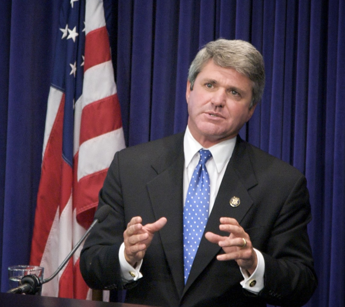 Constructing Cybersecurity: Protecting Our Digital Infrastructure